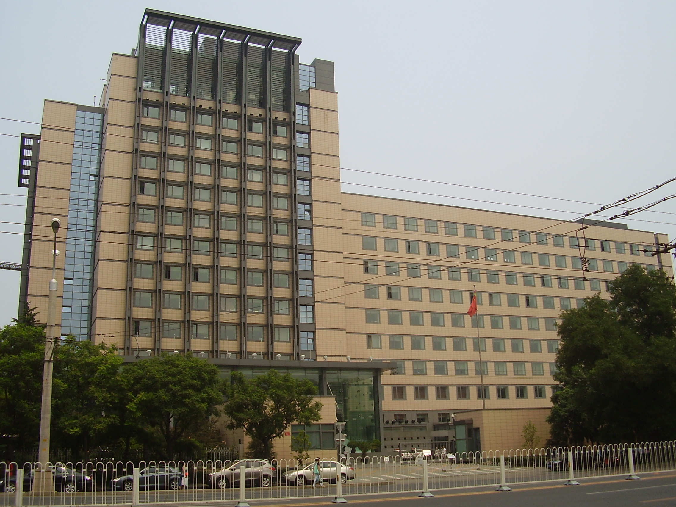 Civil Aviation Administration of China headquarters - No. 155 Four East West Main Street (Dongsi Xidajie), Dongcheng District, Beijing 100710